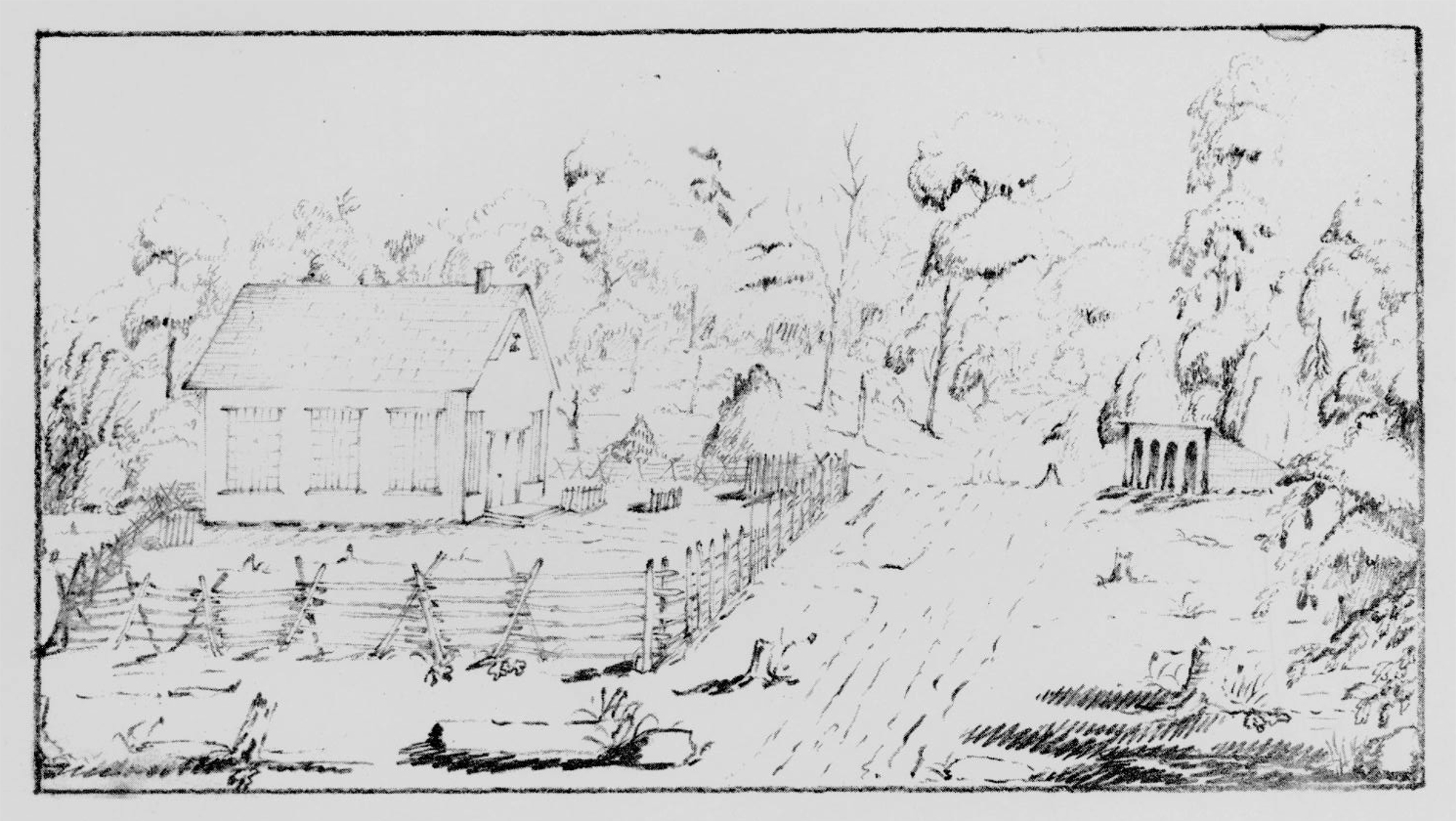 This is a pencil sketch of St James On-the-Lines church in Penetanguishene, Ontario drawn by Mary Hallen Gilmour daughter of Rev. George Hallen in 1847.